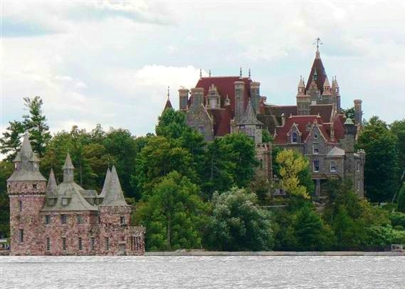 (Killington123(I took it myself)I hold the copyright))